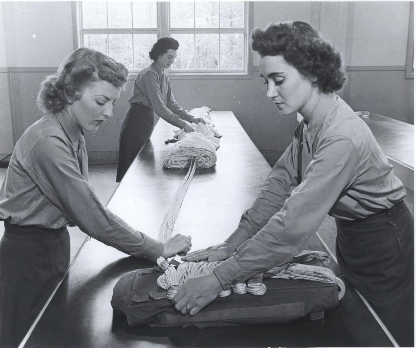 From left to right: Private Marion I. Chadwick, Private Jessie O. Young, and Private Marjorie N. Barrett. These Women Marines are learning how to rig parachutes at the training school at Camp Lejeune, North Carolina. From the Marine Corps Women's Reserve Collection (COLL/981) at the Marine Corps Archives & Special Collections. OFFICIAL USMC PHOTOGRAPH